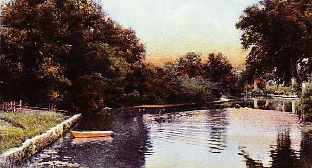 Exeter River in 1907, Exeter, NH; from an old postcard.